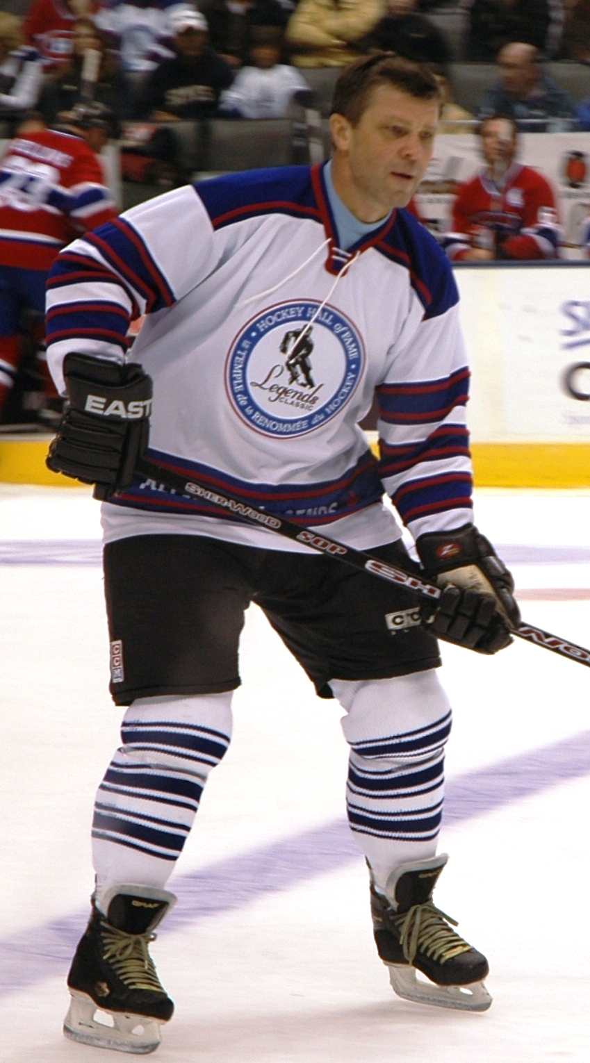 Peter Stastny played with the All-Star Legends 2008 in Toronto